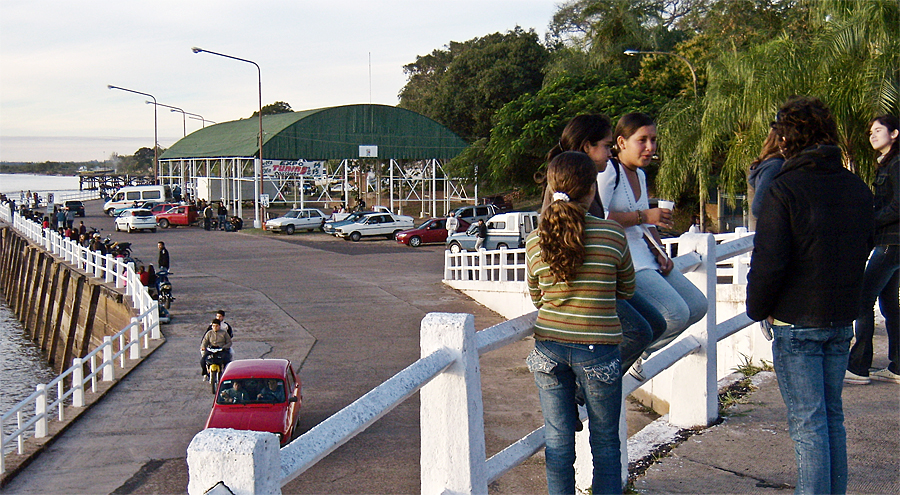 Picture taken on a Sunday in the coastal Bella Vista